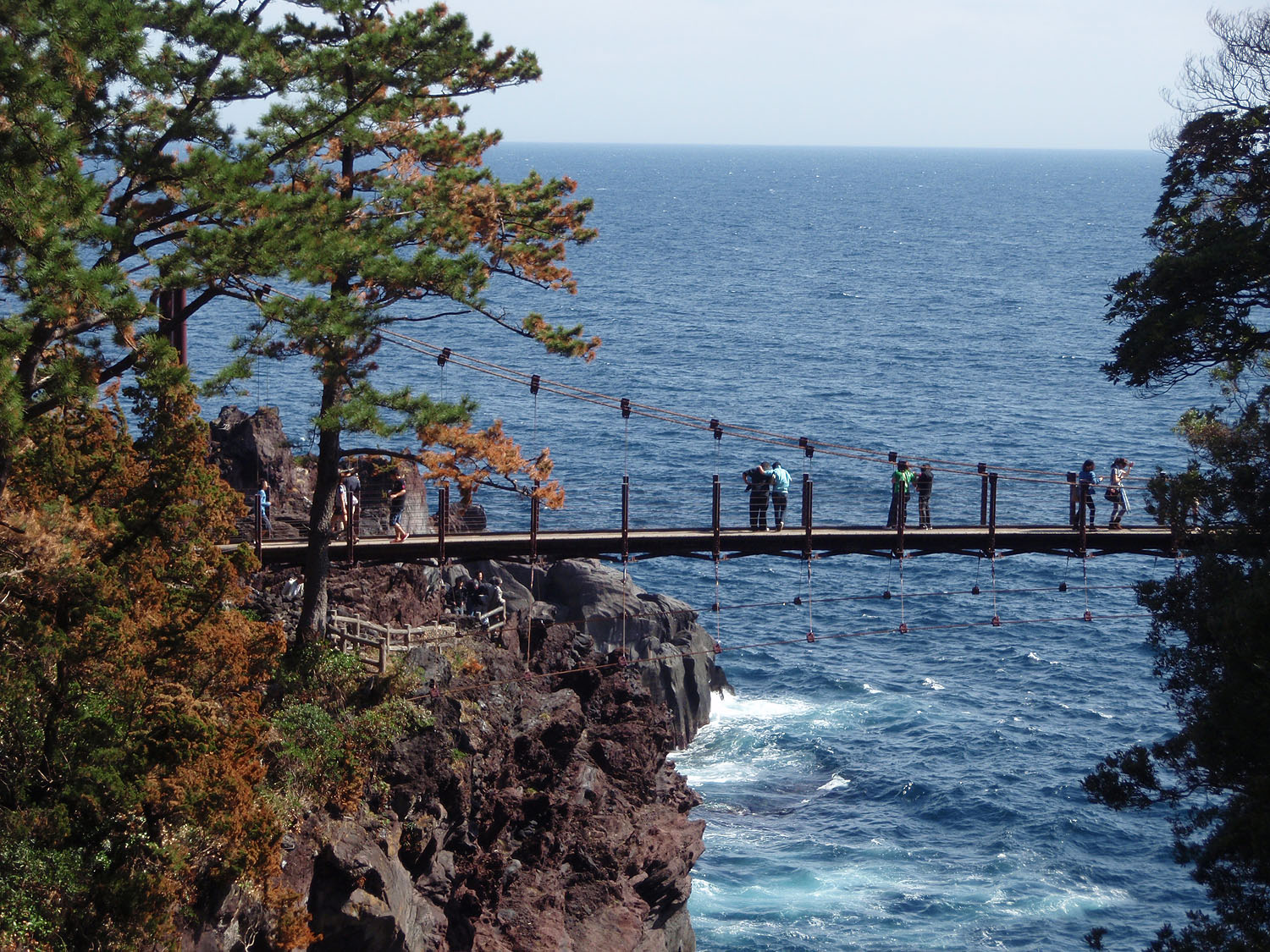 Kadowaki Suspension Bridge in Jogasaki Coast, Ito, Shizuoka Prefecture, Japan.